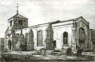 Etching published by F. L. Griggs (1876-1938) of the Church of St Katharine, Ickleford as it was in 1859. Published in 1900 based on an earlier drawing.